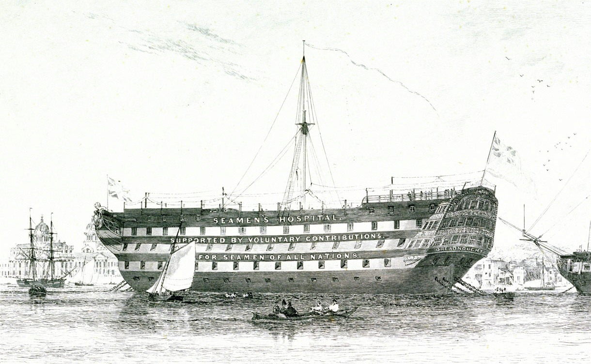 First HMS Dreadnought as hospital ship (19th century engraving). Original title: The Dreadnought, 104 Guns, until recently lying off Greenwich